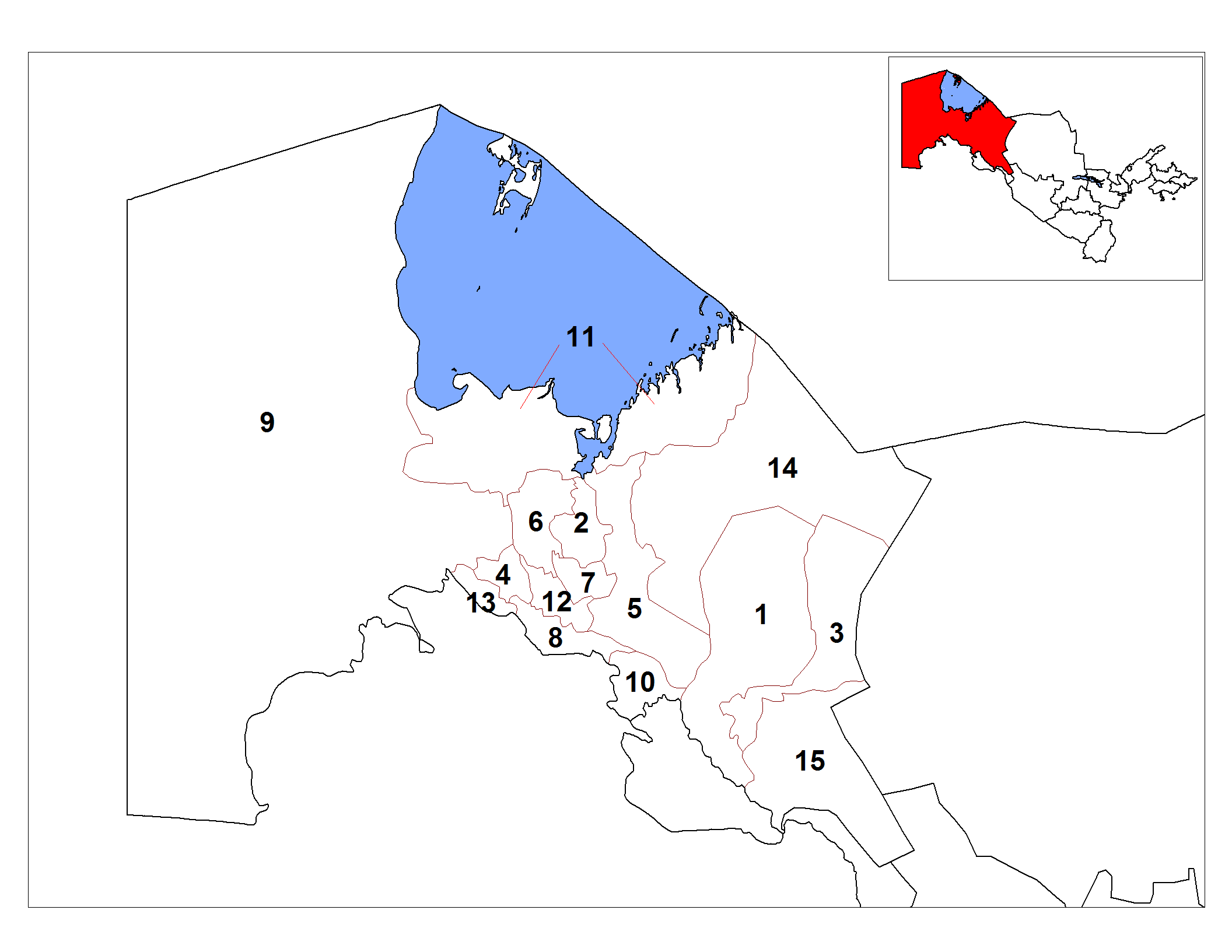 Map of the districts (tuman) of the province (viloyat) of Karakalpakstan in Uzbekistan.